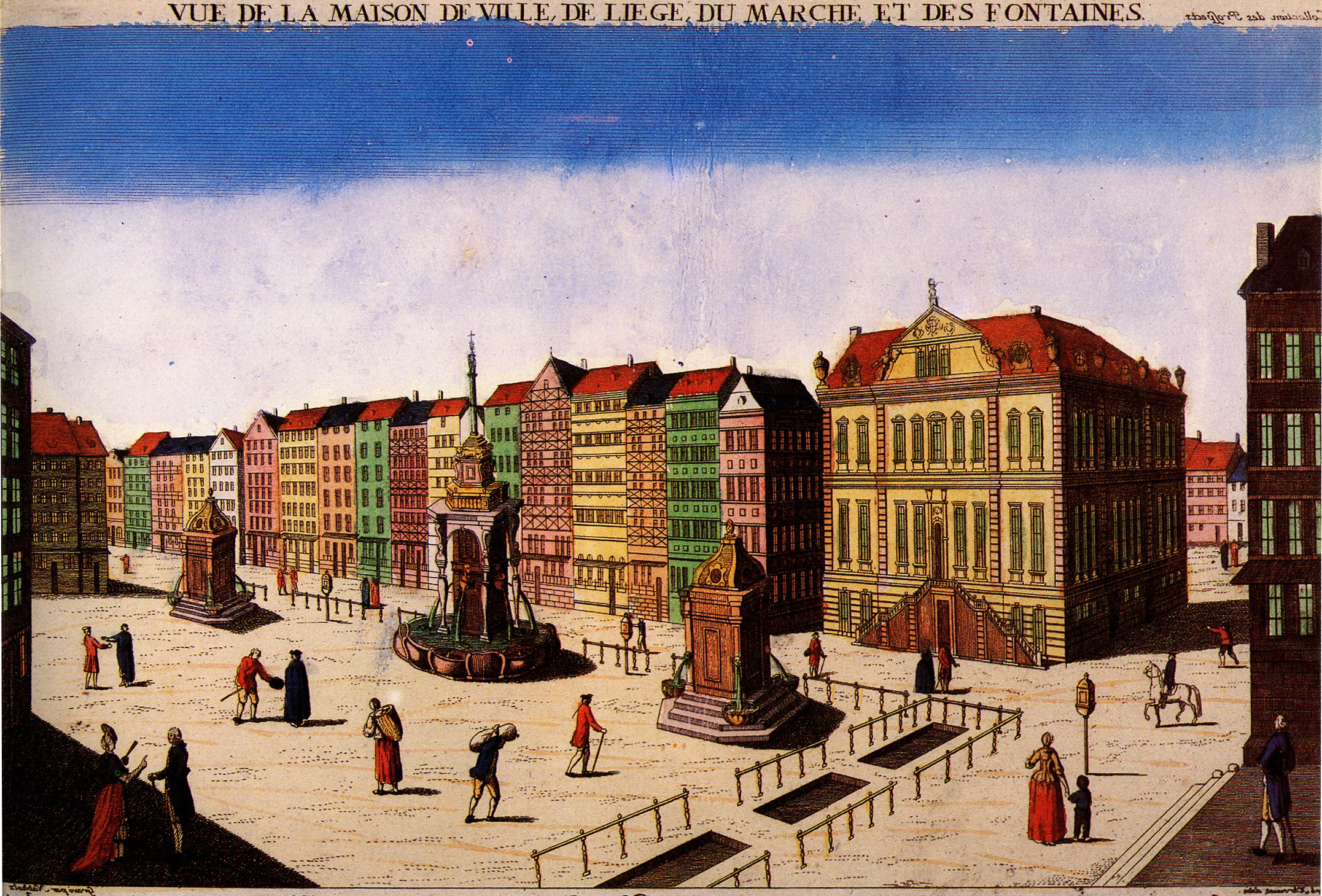 Place du Marché, the Liège market place in 1738. To the right the new townhall.